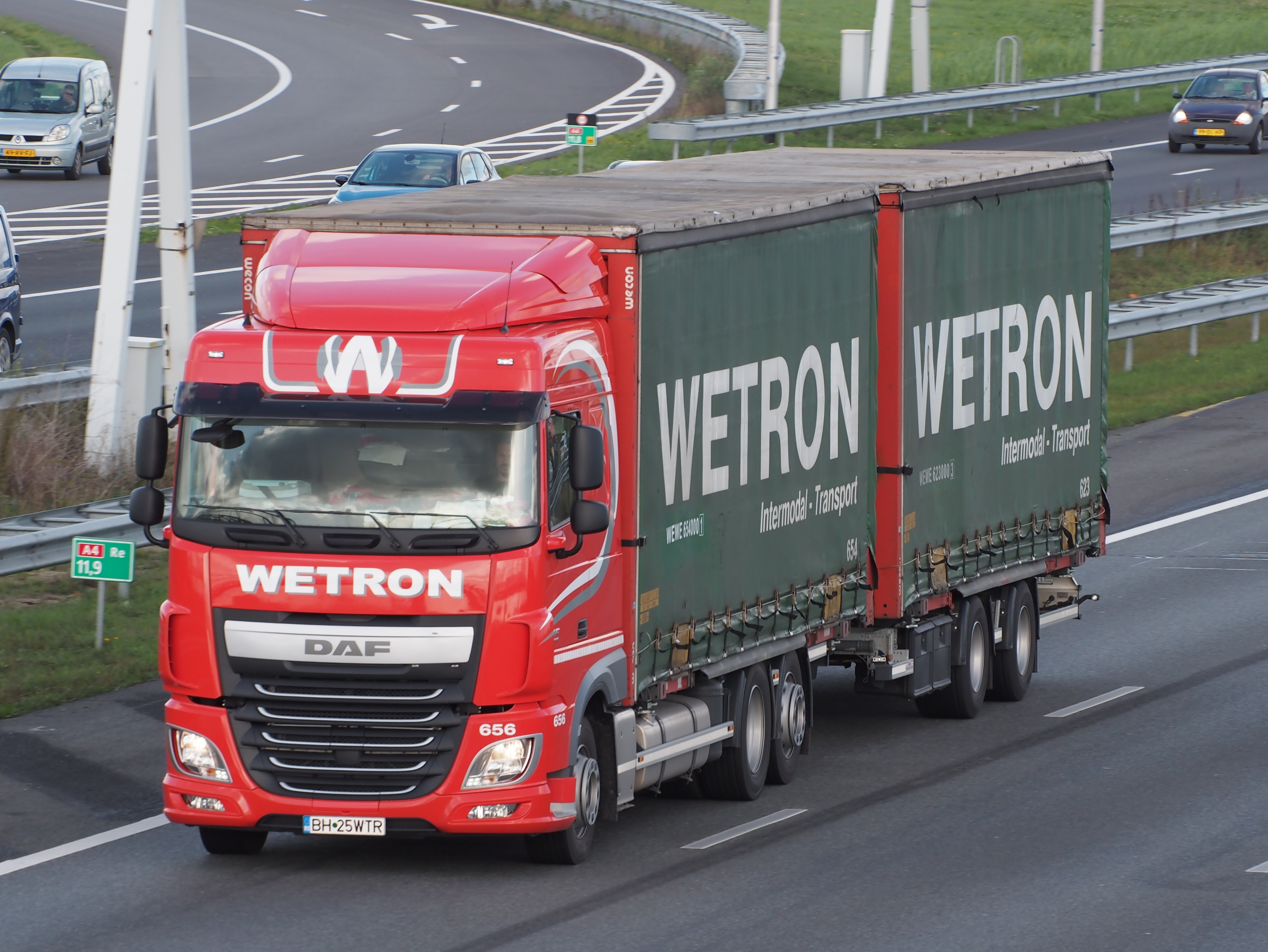 Photographed on the A4 motorway near Hoofddorp, The Netherlands.